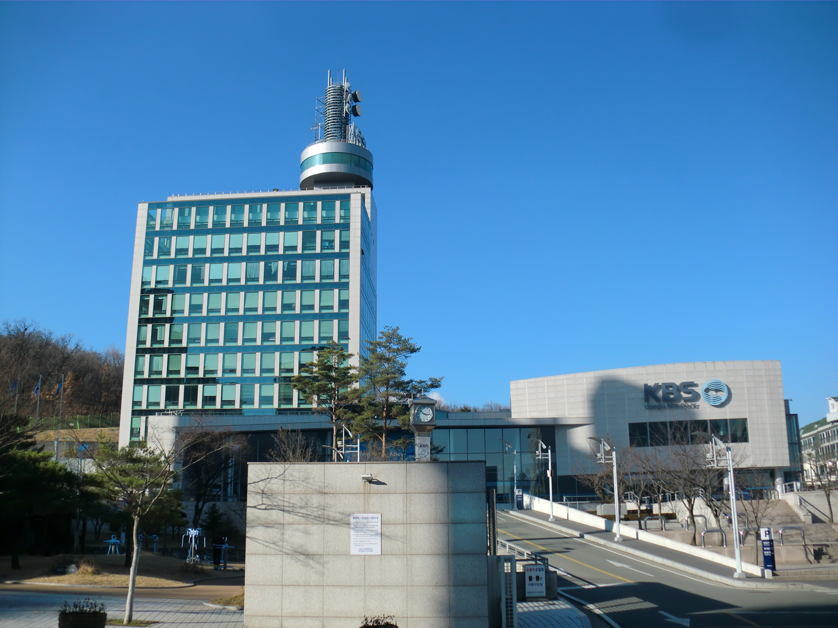 Daegu Broadcasting Branch Office, Korean Broadcasting System